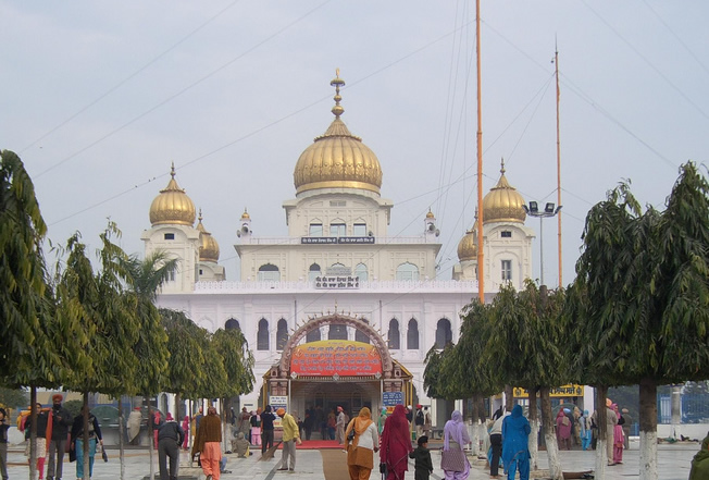 Sikh Shrine or Gurdwara